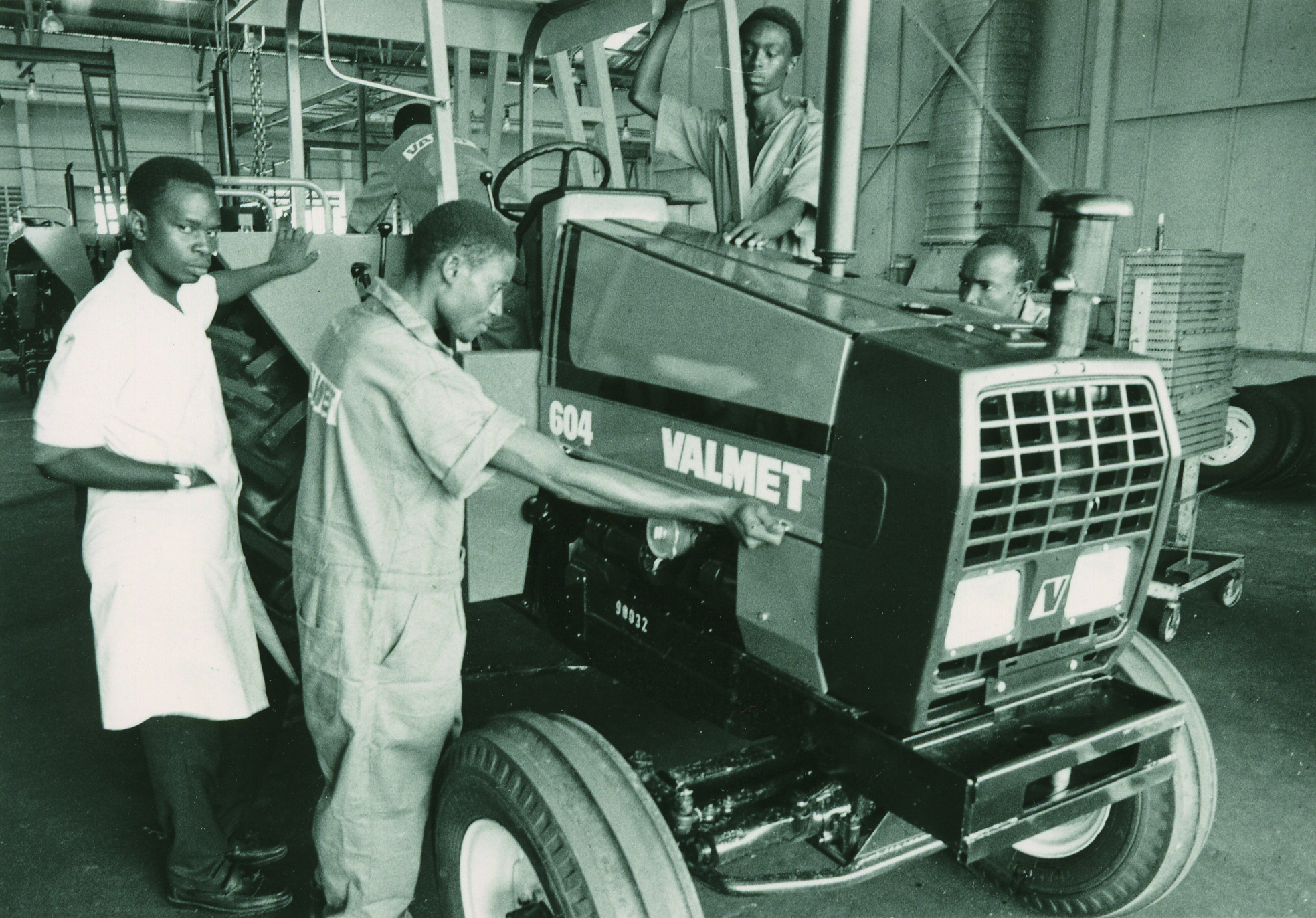 Establishing Valmet assembly line in Tanzania was part of the development aid to increase agricultural mechanization in East Africa. Engineer and workers inspecting Valmet 604 tractor at the assembly line.